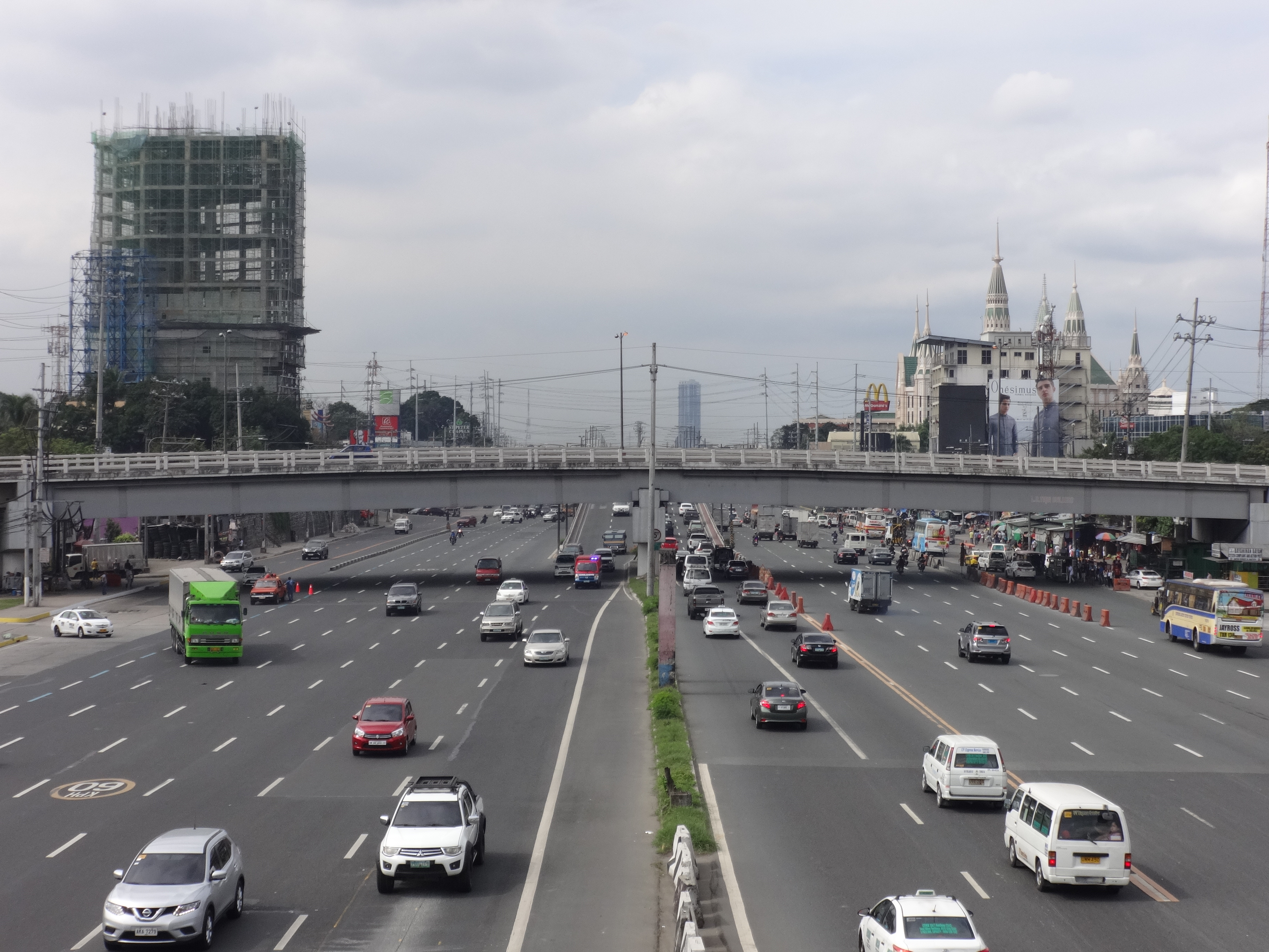 Tandang Sora-Luzon section of Commonwealth Avenue in Quezon City